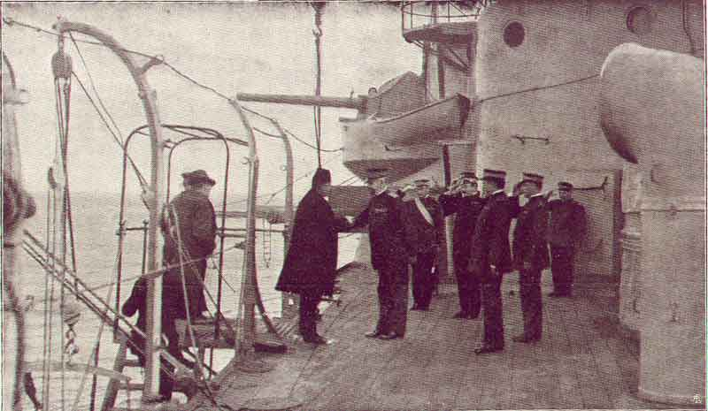 Essad-pasha leaving Durazzo in 1916.